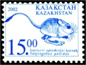 Stamp of Kazakhstan